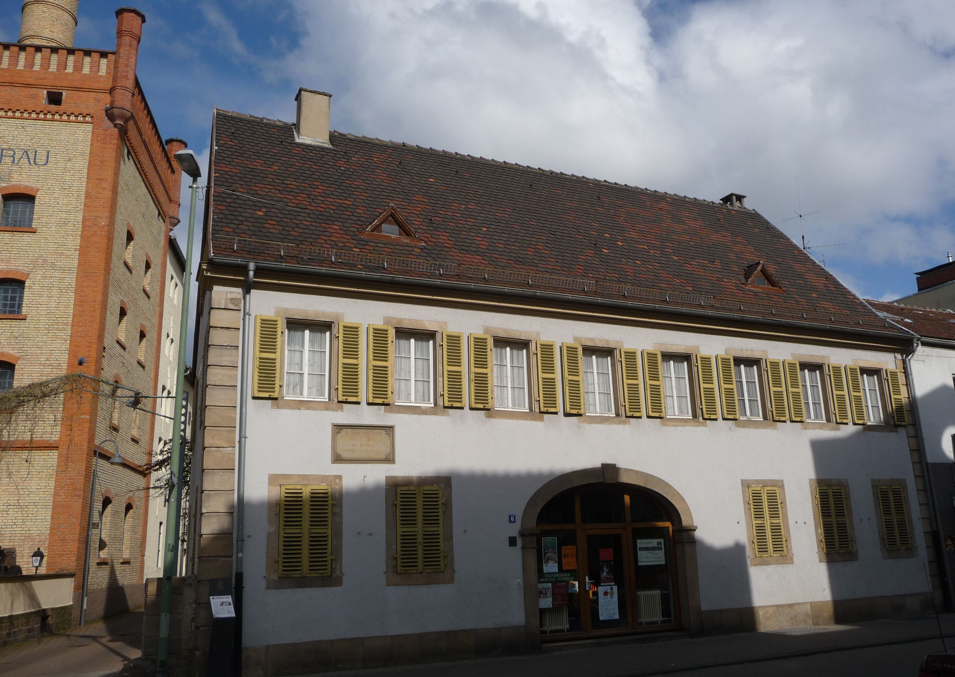 house in Ludwigshafen-Oggersheim, Germany